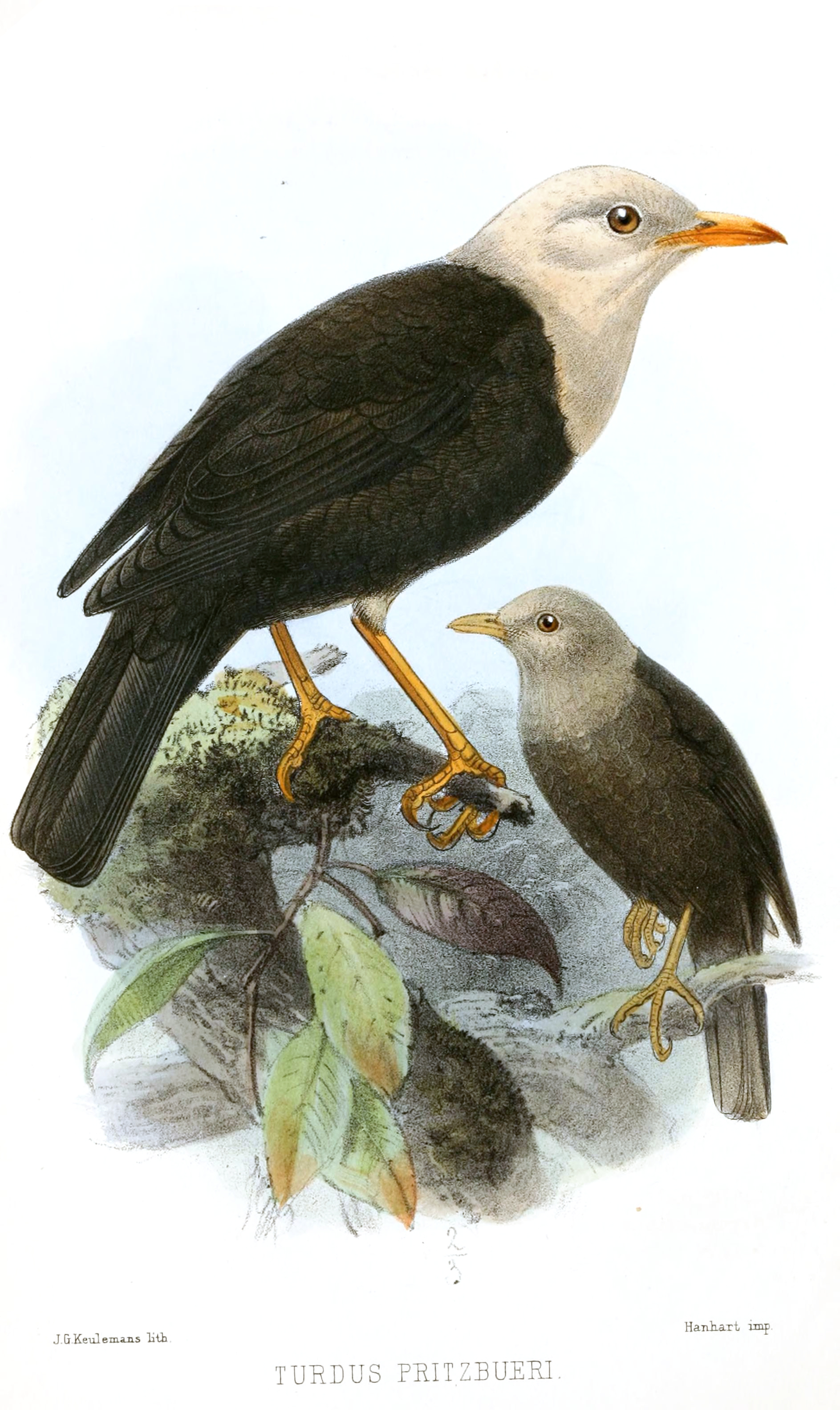 « Turdus pritzbueri » = Turdus poliocephalus pritzbueri (Subspecies of Island Thrush)